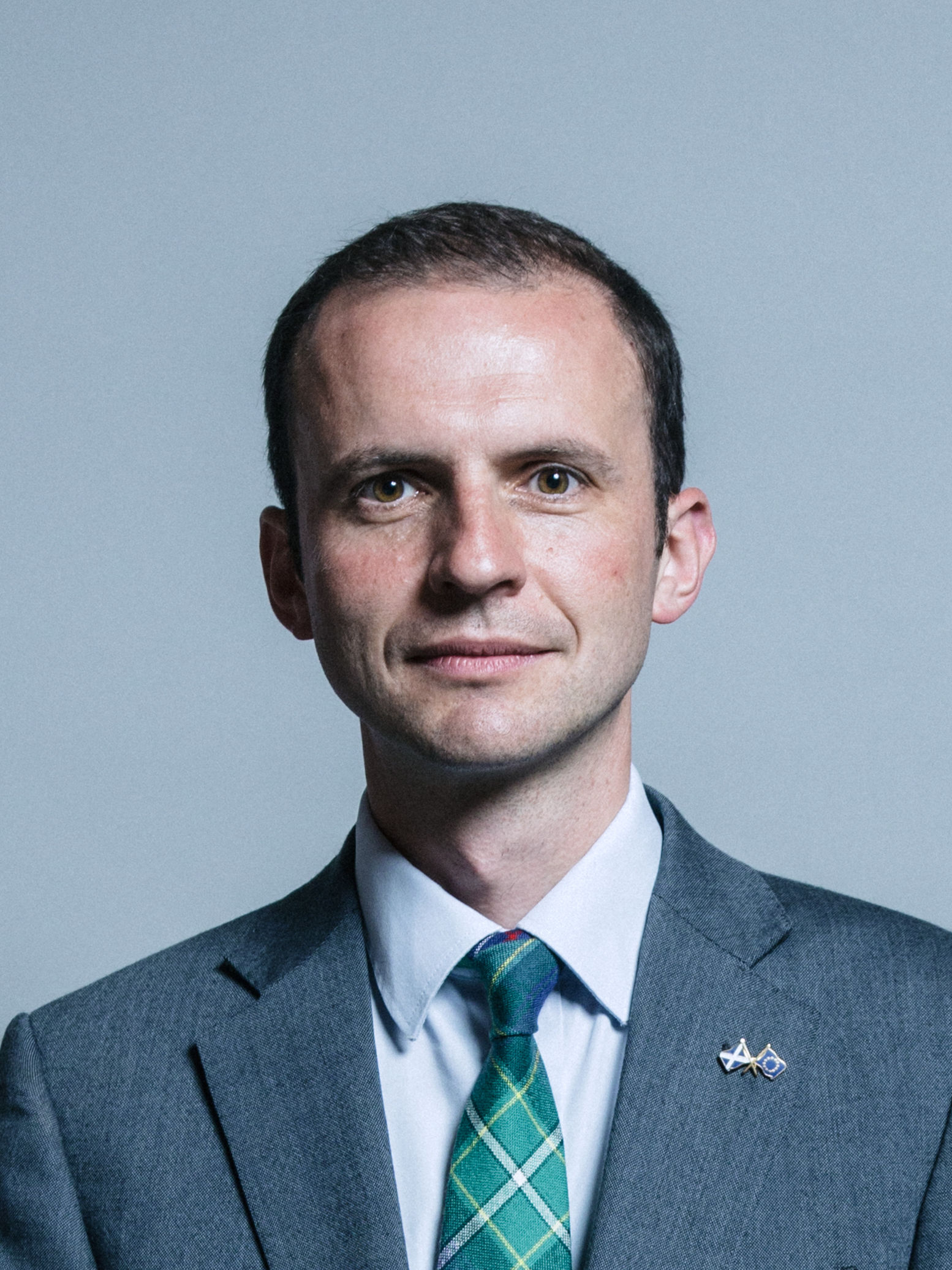 Official portrait of Stephen Gethins